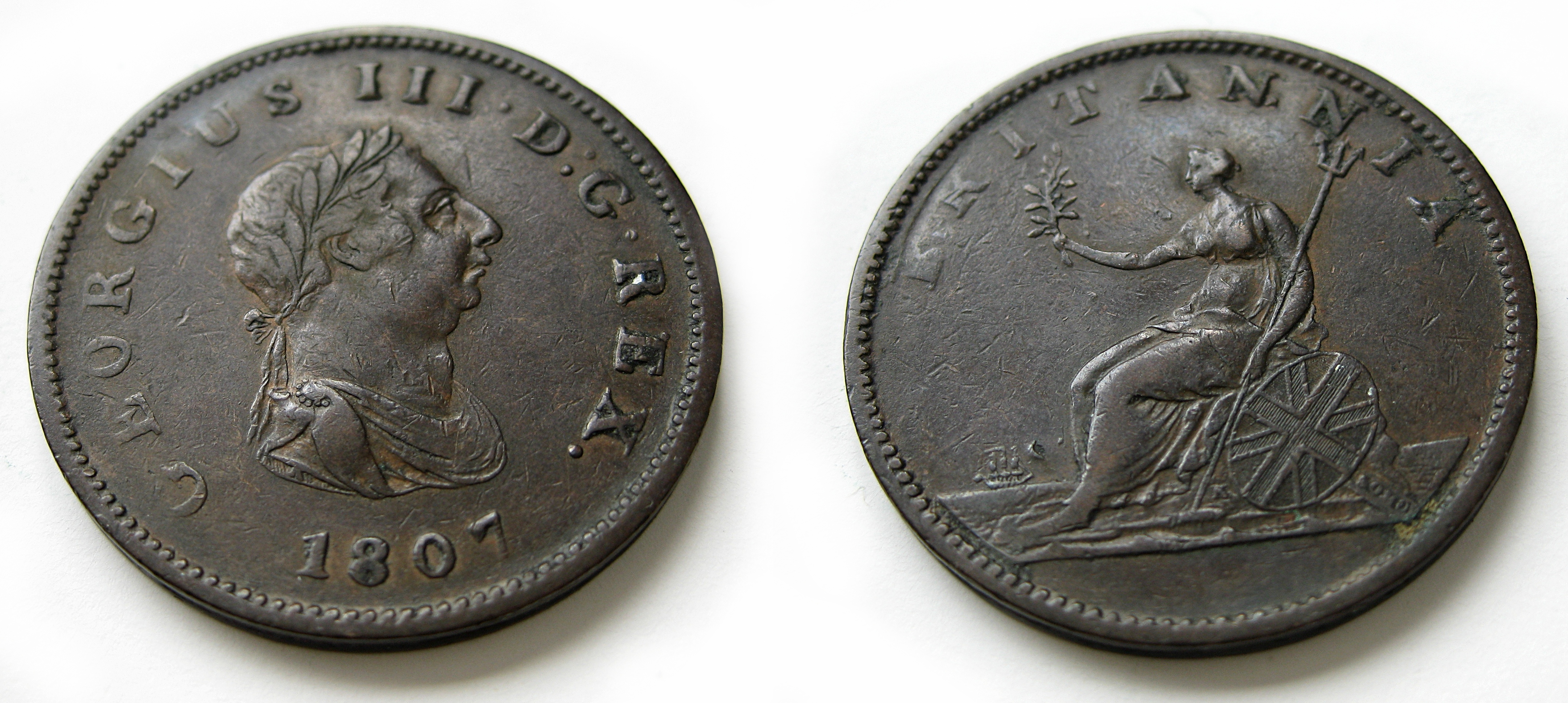 An 1807 halfpenny coin from Britain produced at the Soho Mint, Birmingham. The word 'Soho' can be seen at the bottom-right corner of the reverse